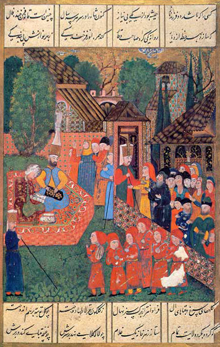 An enhanced version of the Wikimedia Commons image Suleymanname_31b.jpg. Registration of boys for the devşirme. The six boys clad in red have been collected. On the left a writer registers them, on the right the public, the relatives of the boys and Jannisaries. Ottoman miniature painting from the Süleymanname. (Inv. 1517/31b)